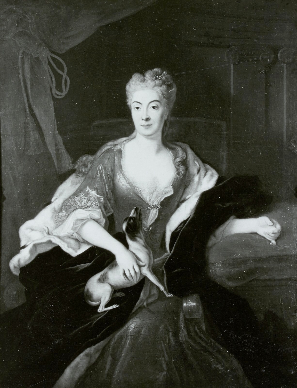 en|Portrait of Ursula Katharina Lubomirska (1680-1743)